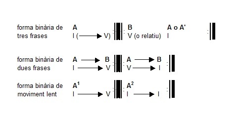 Schemes of different important types of binary form.